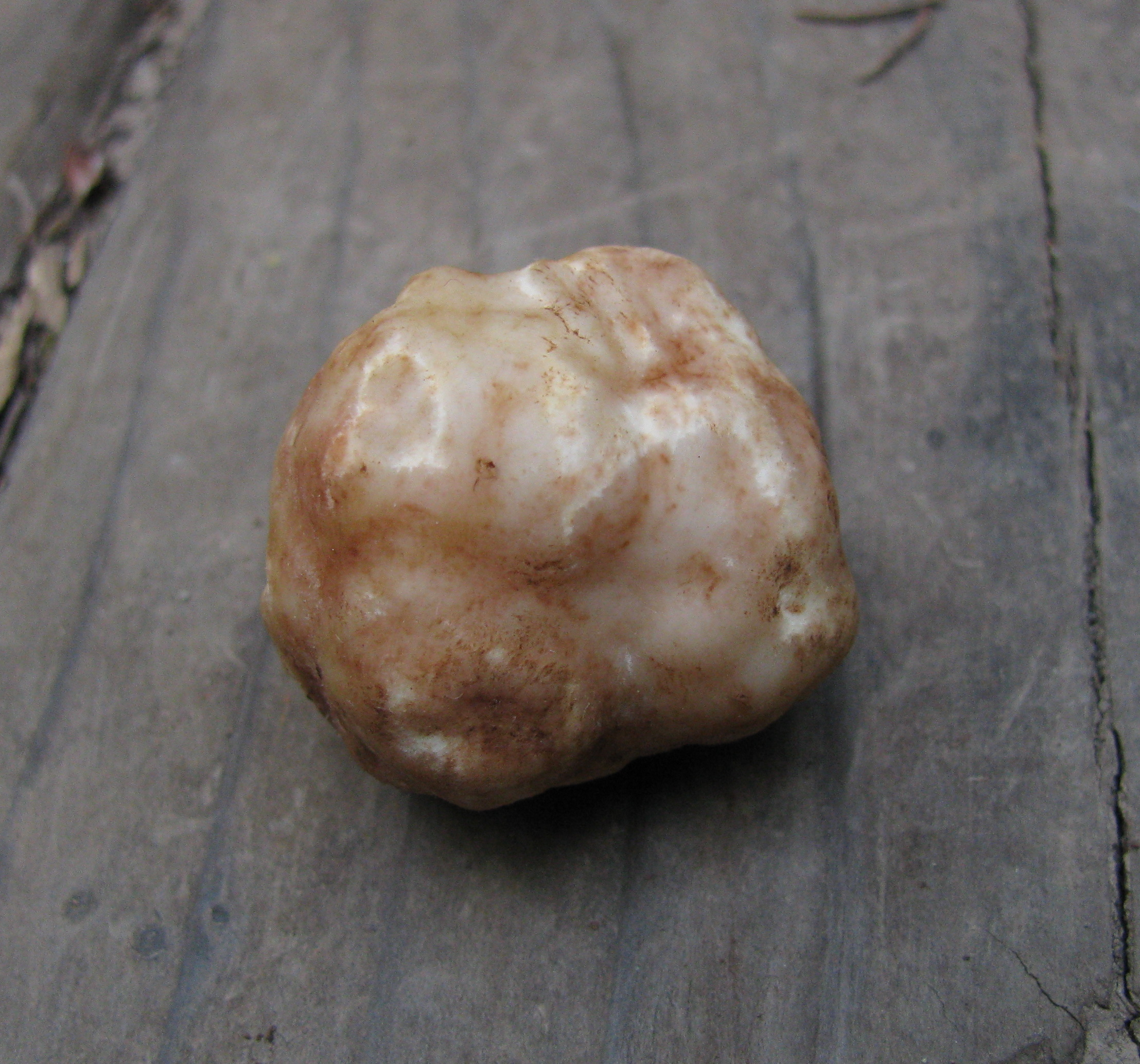 An ascomata (fruit body) of the truffle fungus Tuber gibbosum Harkn. Specimen collected and photographed in Dayton, Oregon, USA